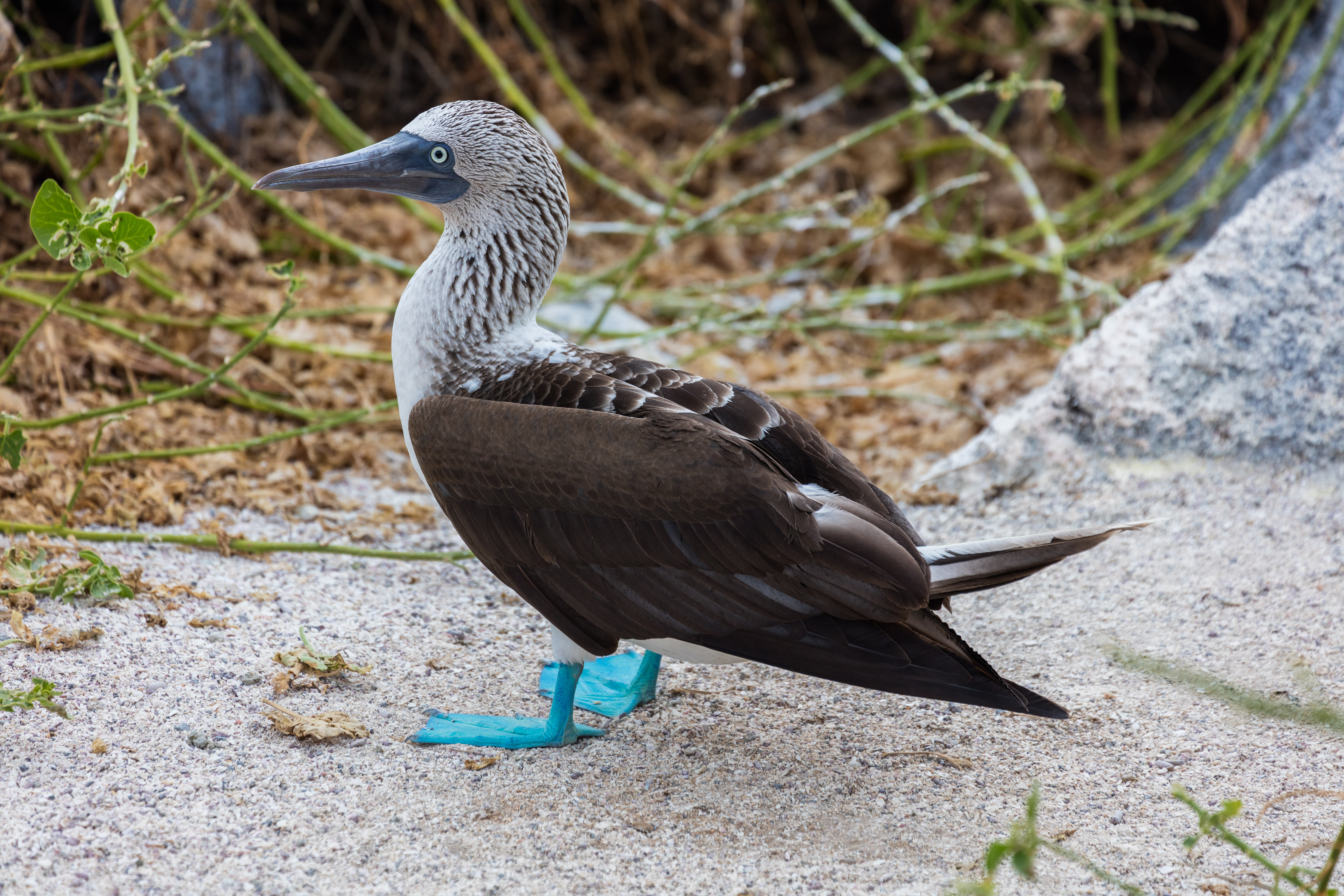 Blue-footed booby (Sula nebouxii), Las Bachas, Baltra Island, Galapagos Islands, Ecuador